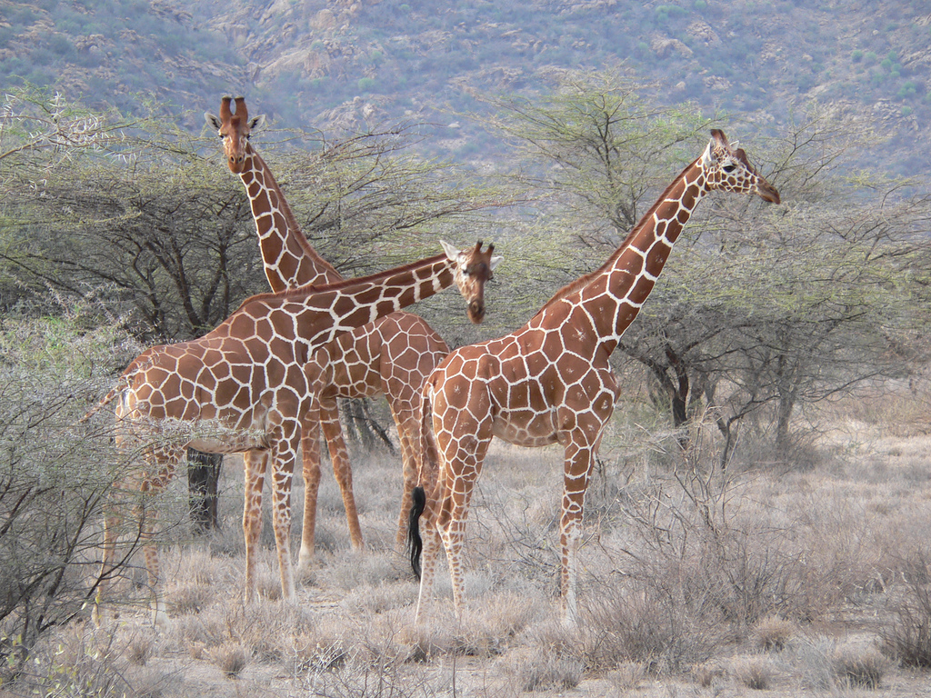 Three bull Reticulated giraffes, Samburu, Kenya